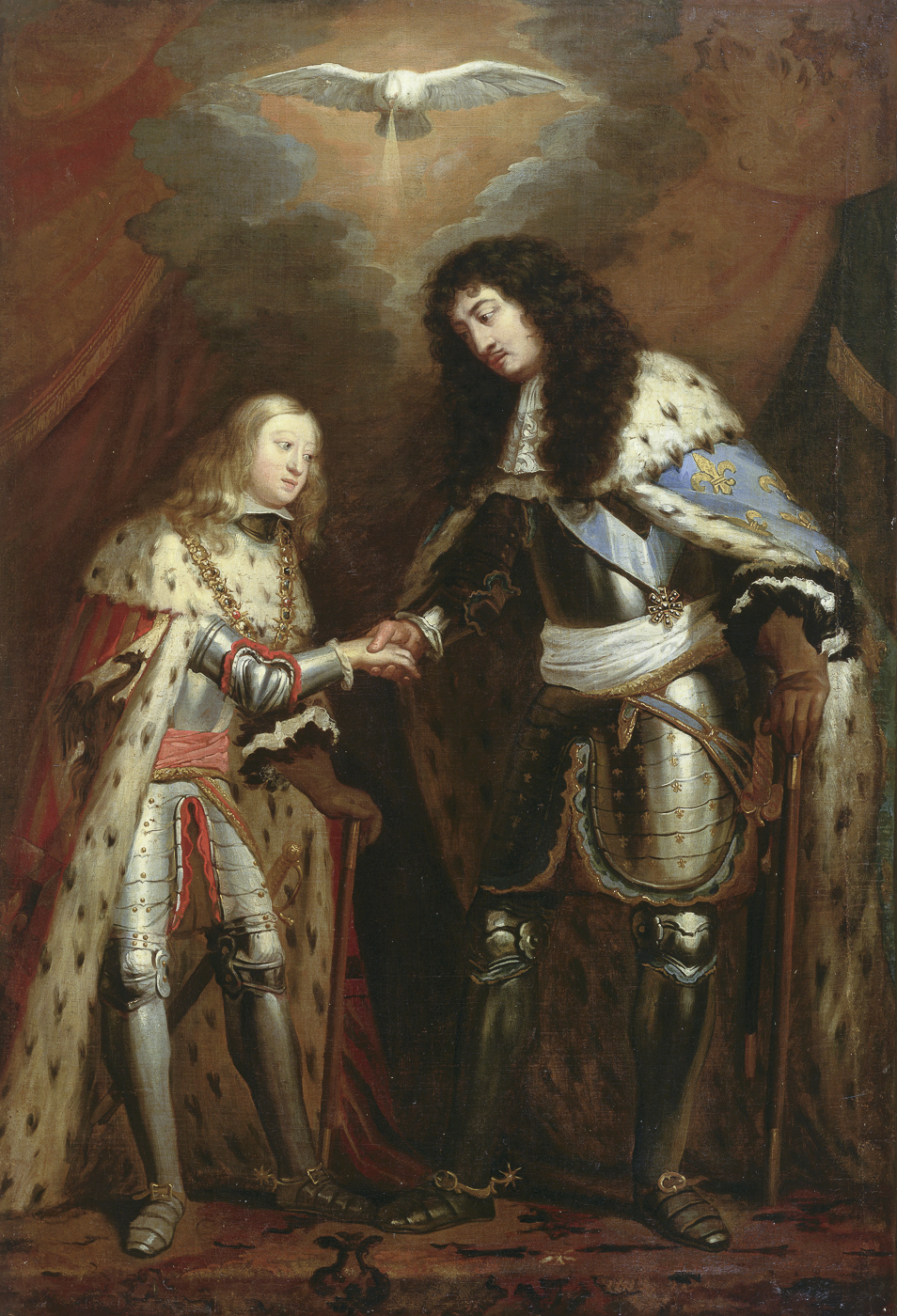 Allégorie du Traité de Nimègue: Louis XIV et Charles II d' Espagne scellent leur alliance sous la bénédiction du Saint-Esprit, représenté par la Colombe de la Paix.